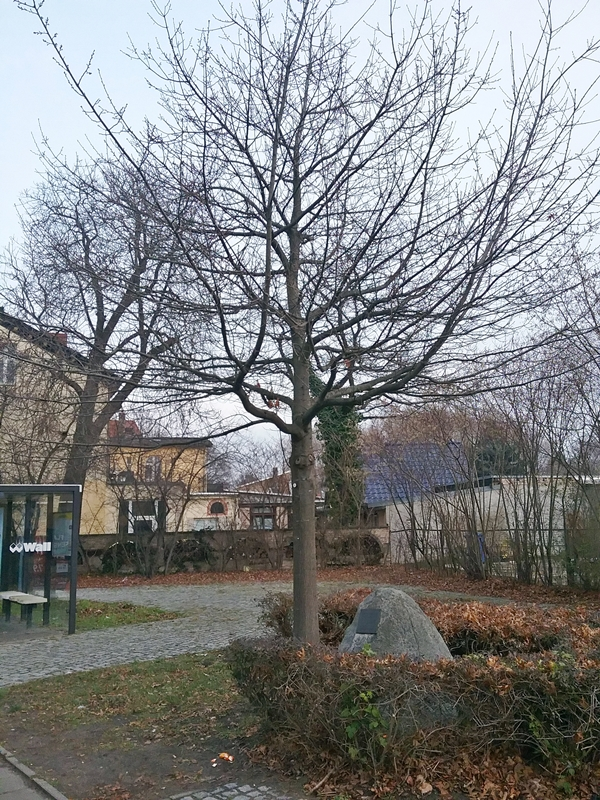 Scarlet oak (Berlin-Altglienicke)